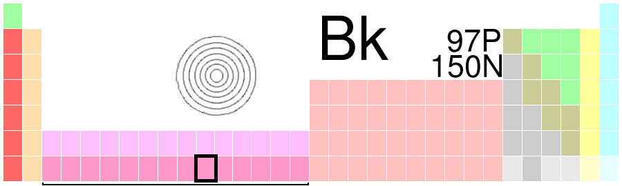 Created by User:Ahoerstemeier similar to the other element boxes